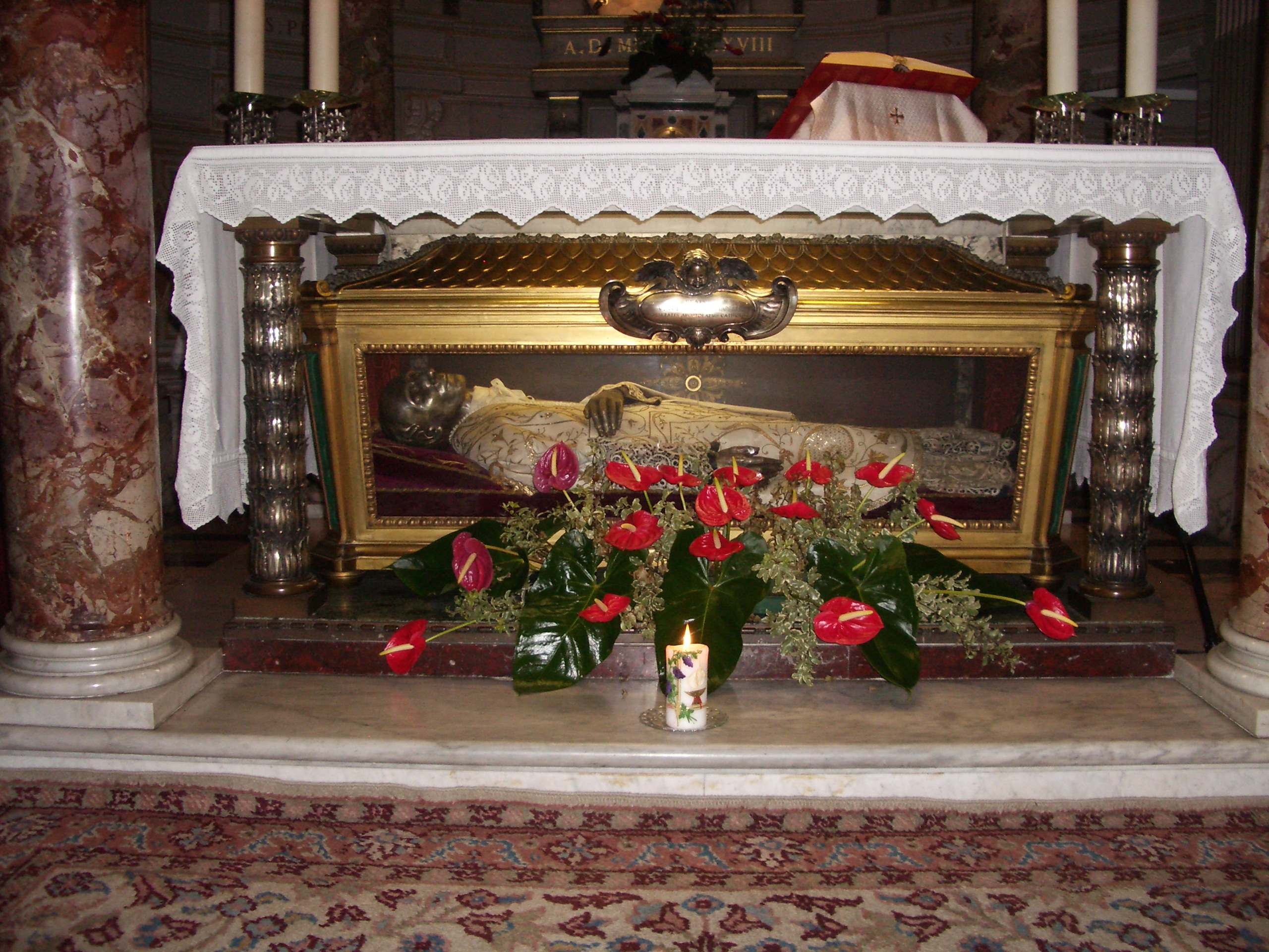 Saint Vincenzo Pallotti - in the San Salvatore In Onda (Roma - Italia)